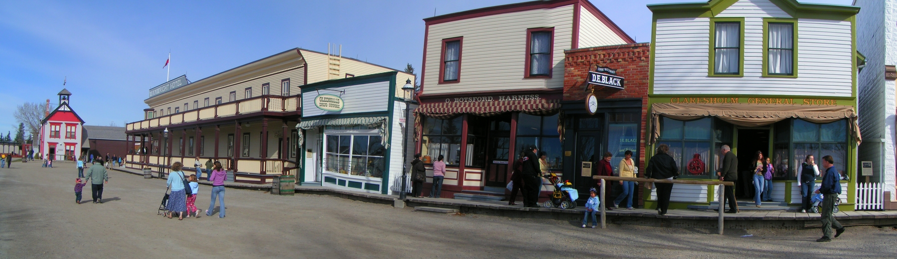 Main Street - Heritage Park, Calgary, Alberta